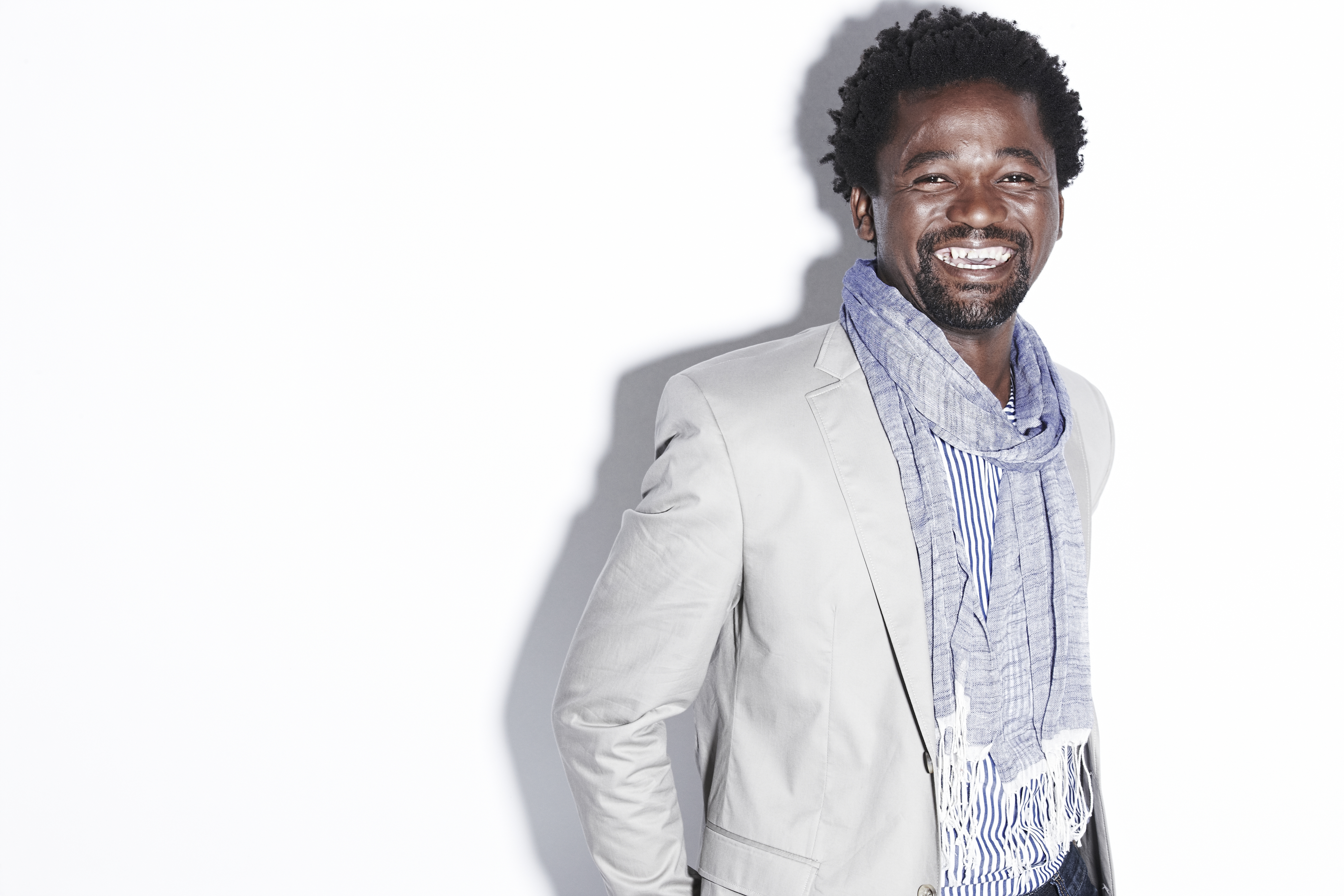 Africa Melane is a presenter for Cape Talk and 702 radio stations in South Africa. He is also a judge for Wiki Loves Africa 2014.